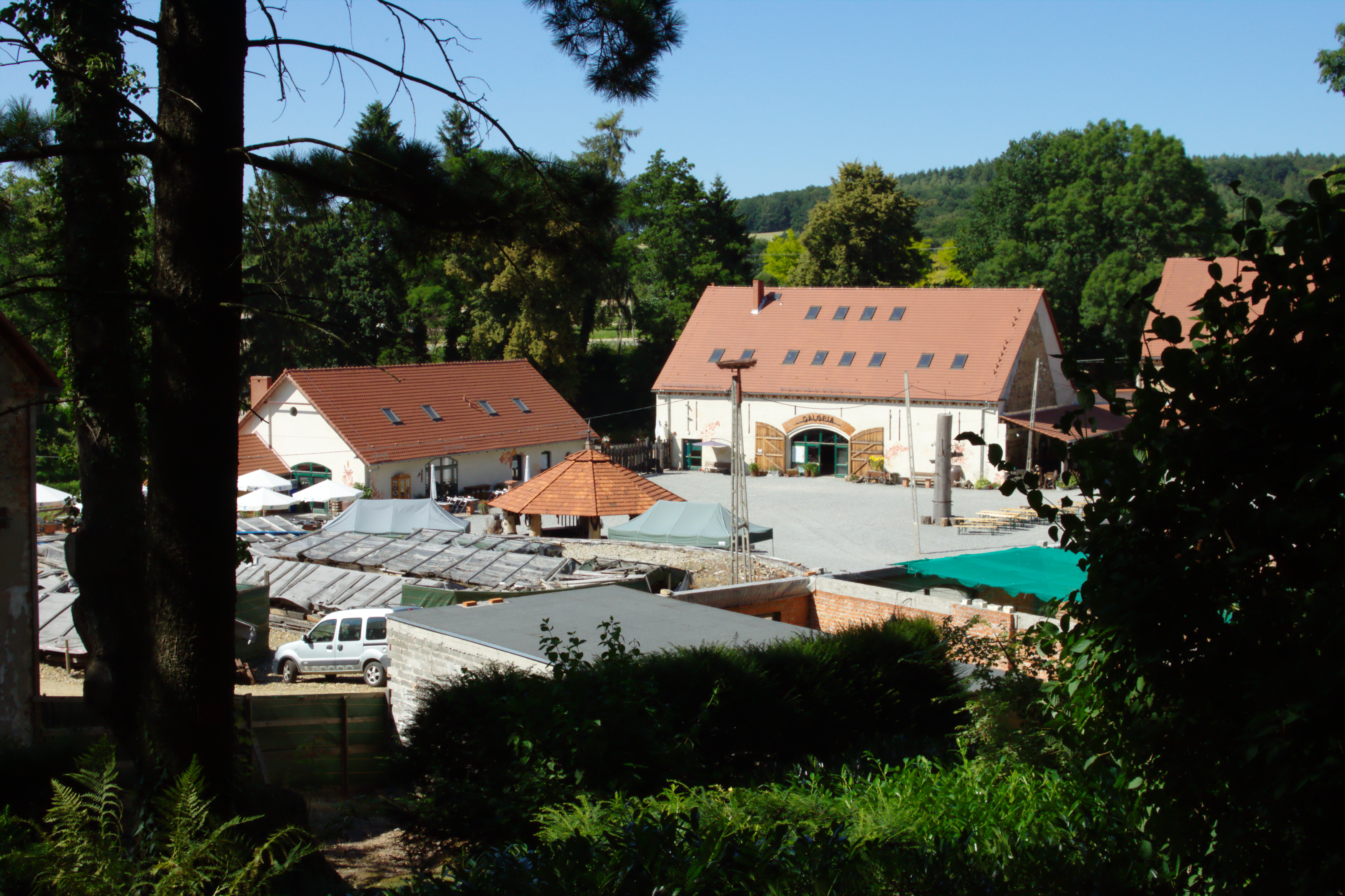 Main part of the Wojsławice Arboretum, Poland